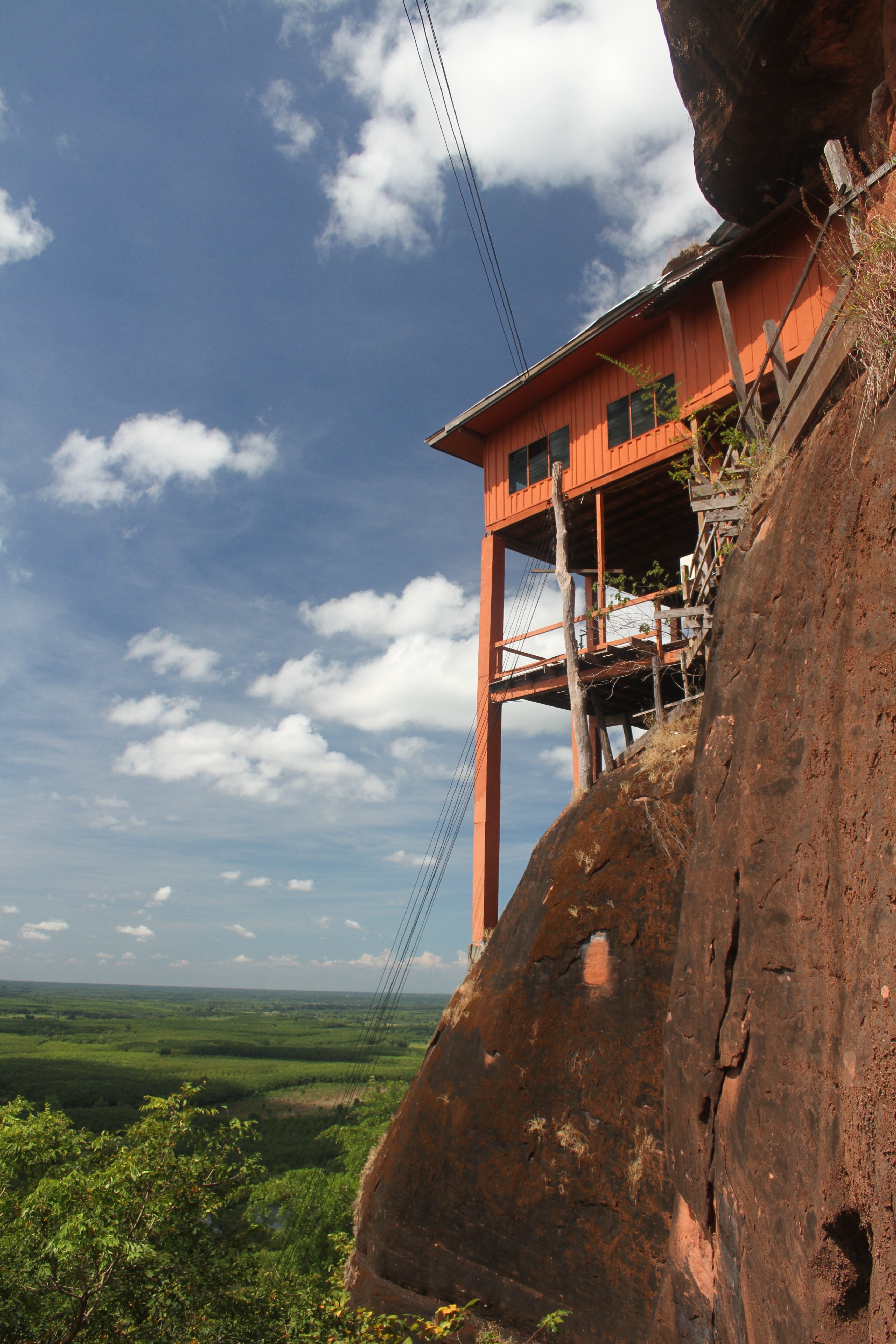 one building on the side of the what